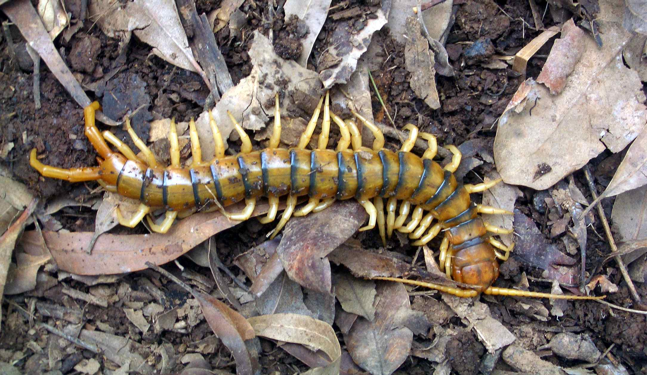 I took this picture myself on 7th March, 2007. John E. Hill 04:23, 7 March 2007 (UTC) Specimen caught by Jim Symes in Laura, Queensland. It measures over 16 cm from its' head to the end of its' body and is the largest recorded specimen of this species so far. John E. Hill 11:12, 22 March 2007 (UTC)